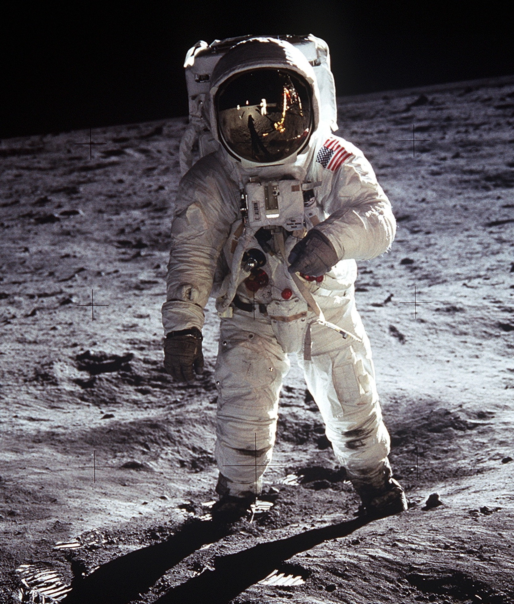 Edwin Aldrin wearing the A7L spacesuit on the moon.